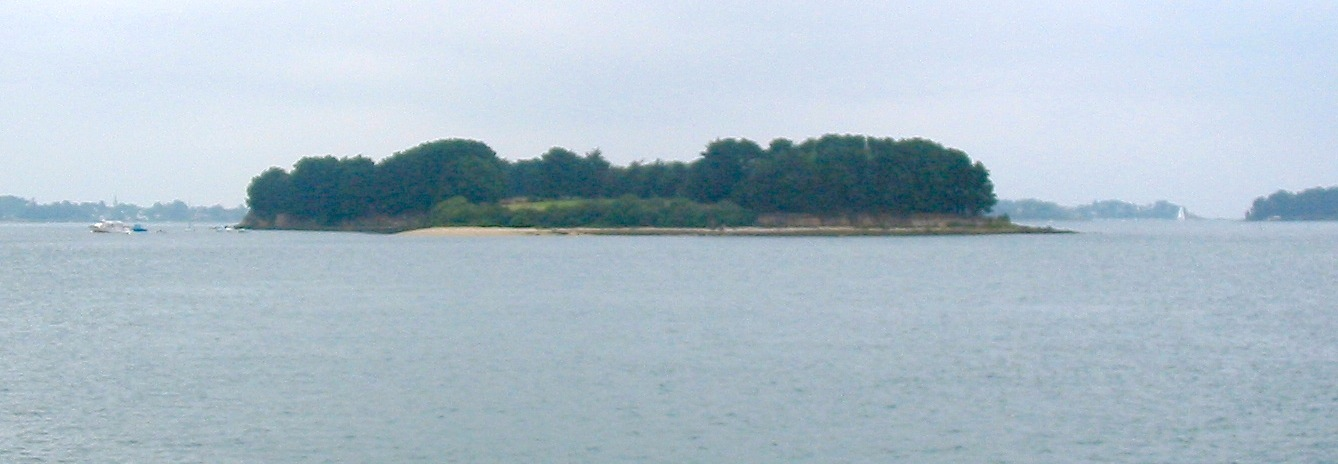 Gavrinis, island in Morbihan, noted megalithic cairn and carvings